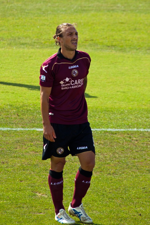 Paulinho Livorno's player 2012/2013